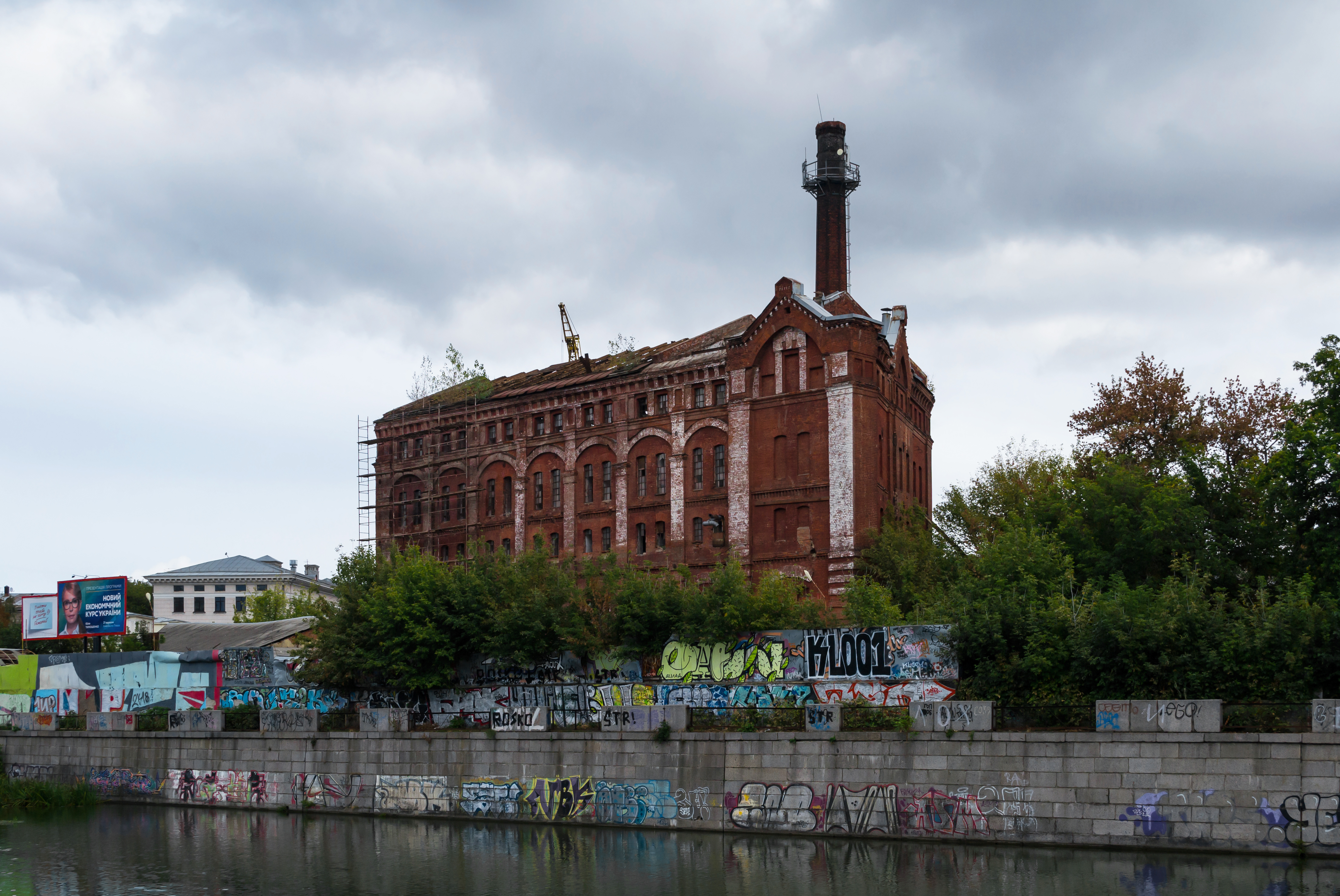 Old steam mill in Kharkiv